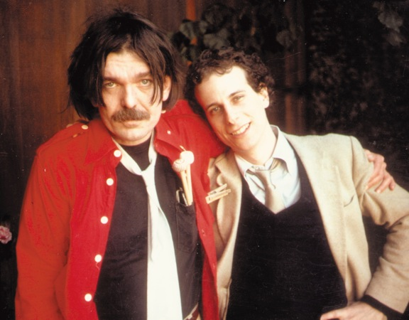 Don Van Vliet and Gary Lucas, "Doc at the Radar Station" sessions, Soundcastle Studios Glendale Ca. May 1980